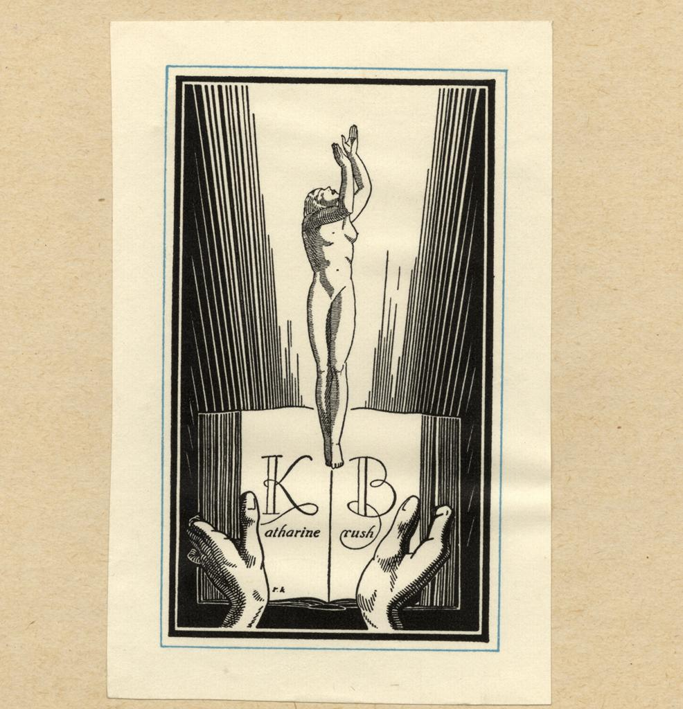 Pictorial Bookplates. Subject: Women; Open books. Subject - Personal Name: Brush, Katharine.